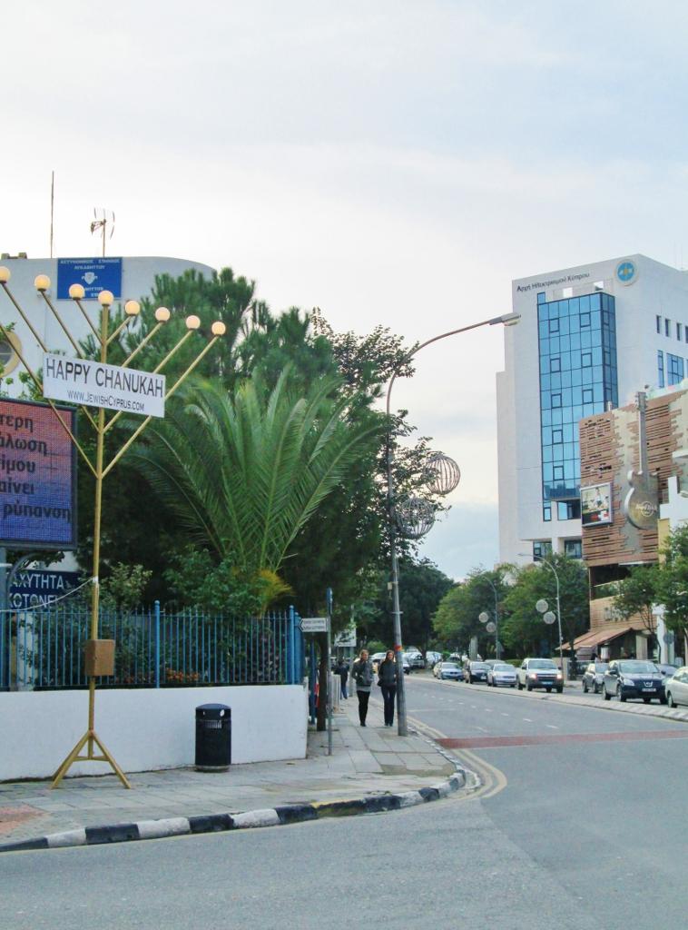 Public Happy Chanukah sign Nicosia Republic of Cyprus